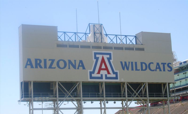 Arizona Stadium - University of Arizona